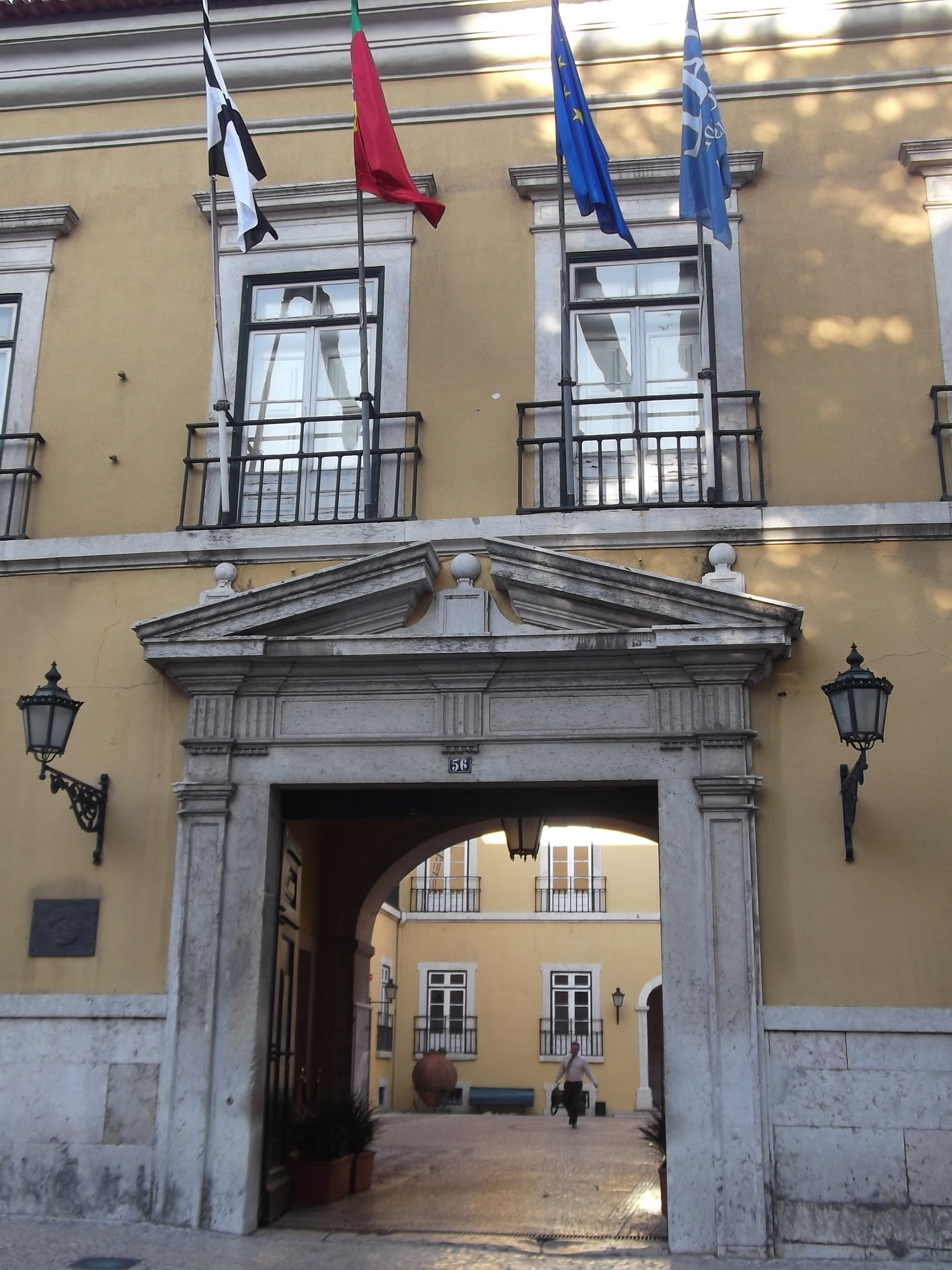 This file was uploaded for Wiki Loves Monuments in Portugal with the unique identifier 73381.